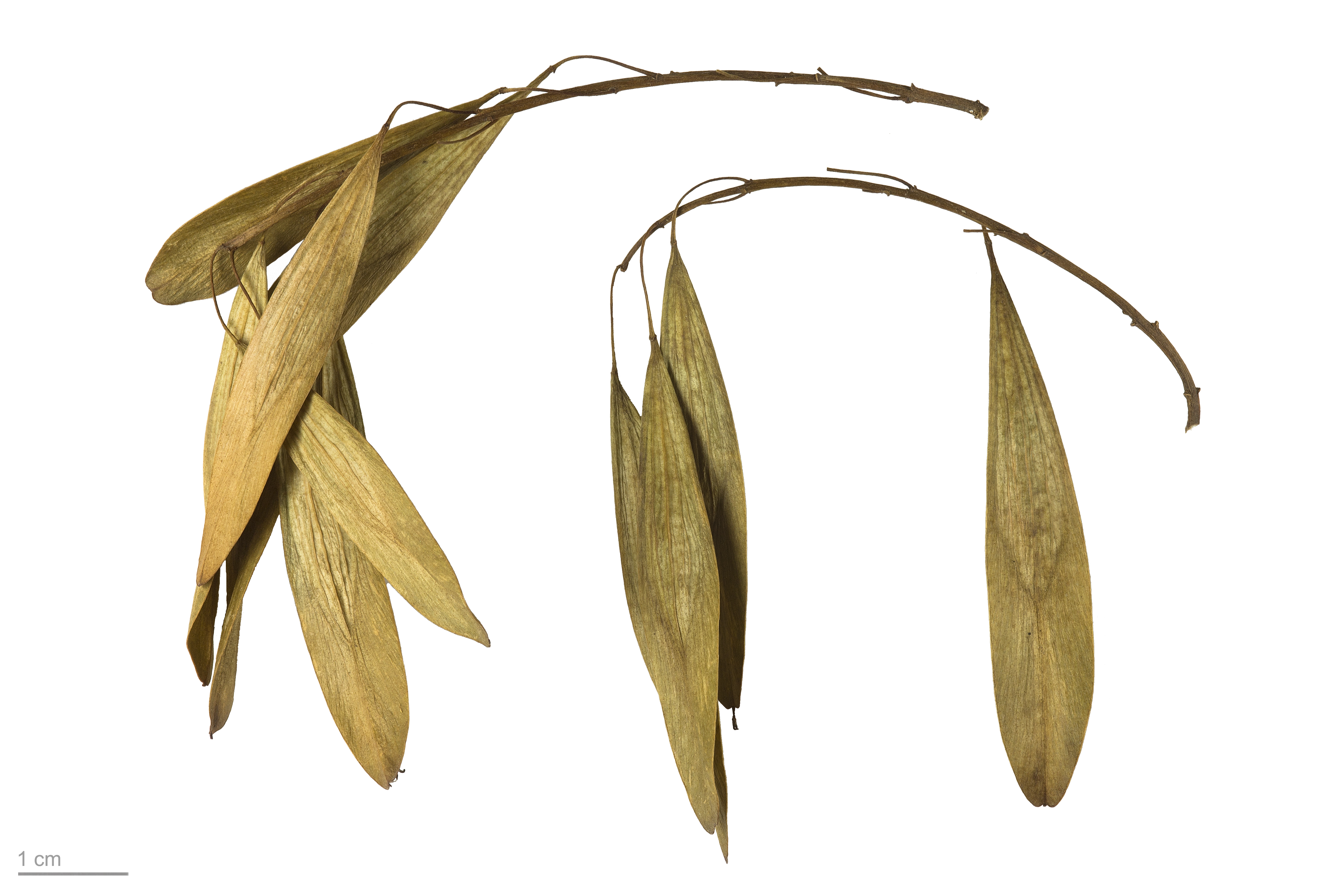 narrow-leafed ash, fruits and seeds